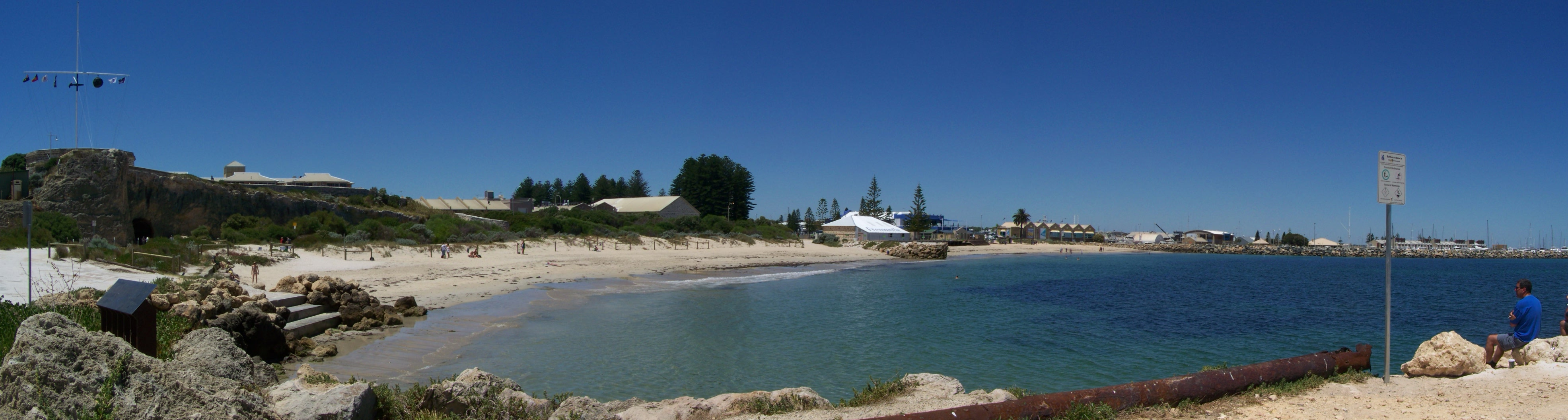 Bathers Beach